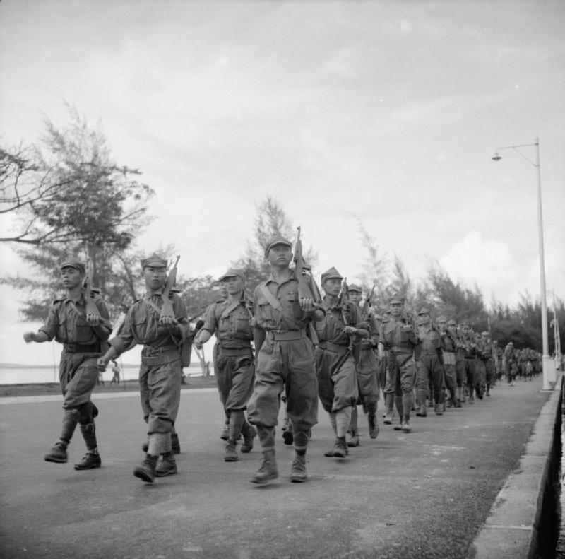 The British Reoccupation of Malaya March past of the 4th Regiment of Guerillas of the Malay Peoples' Anti-Japanese Army during their disbandment ceremony at Johore Bharu. At this march past the salute was taken by Brigadier J J McCully DSO. Also present were Colonel N C Hay (Senior Civil Affairs Officer) and Mr Chen Tian (Commandant of the 4th Regiment of Guerillas).